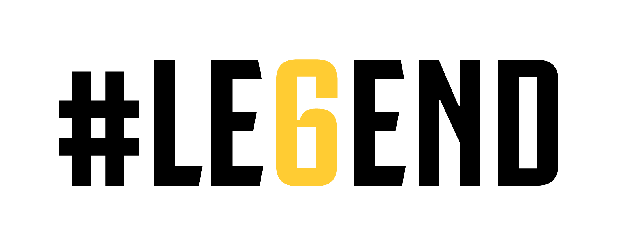 Hashtag #LE6END for the 6th Italian Serie A title won in-a-row by Juventus F.C. in the 2016–17 season.